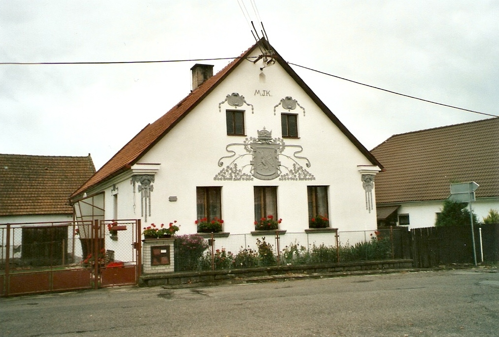 Neurazy village in Plzeň jih district, Czech Republic. A nice house right on the village common.